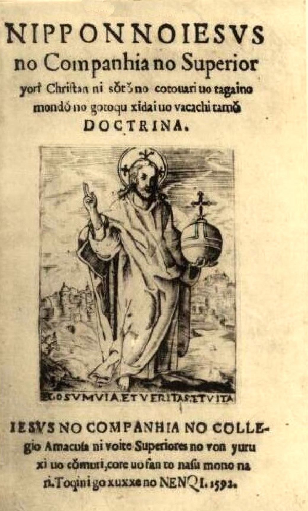 Cover of book, christian teaching